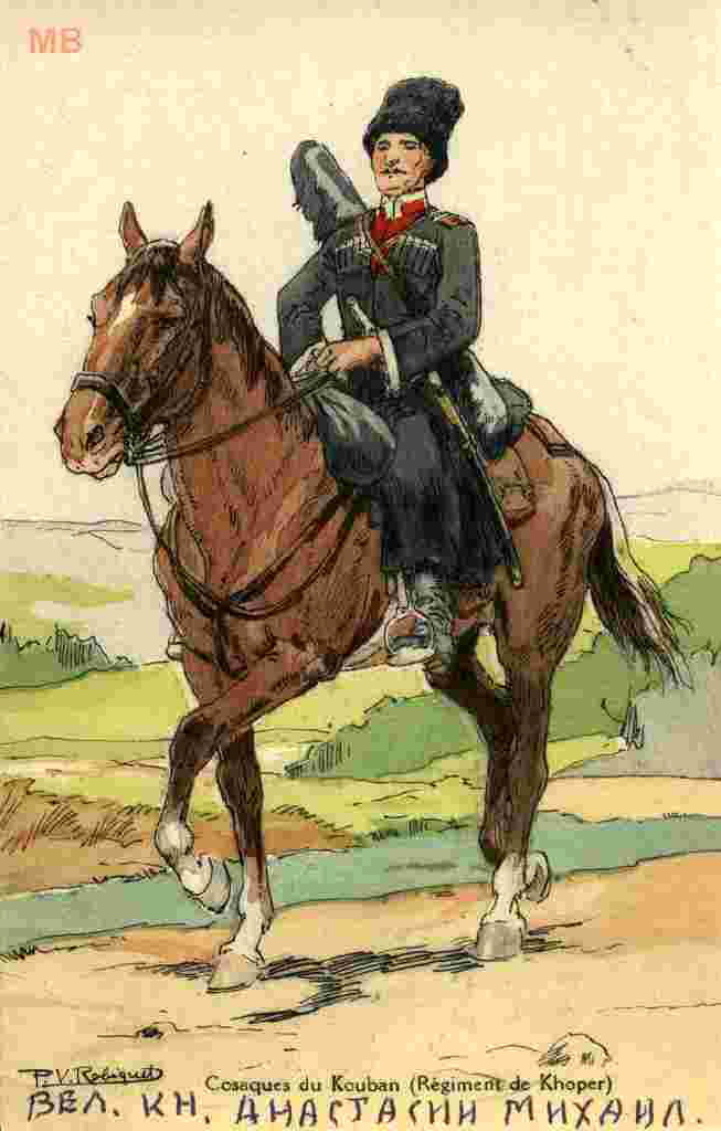 Uniform of Cossacs 1-st Khoper Regiment. 1914 Postcard.